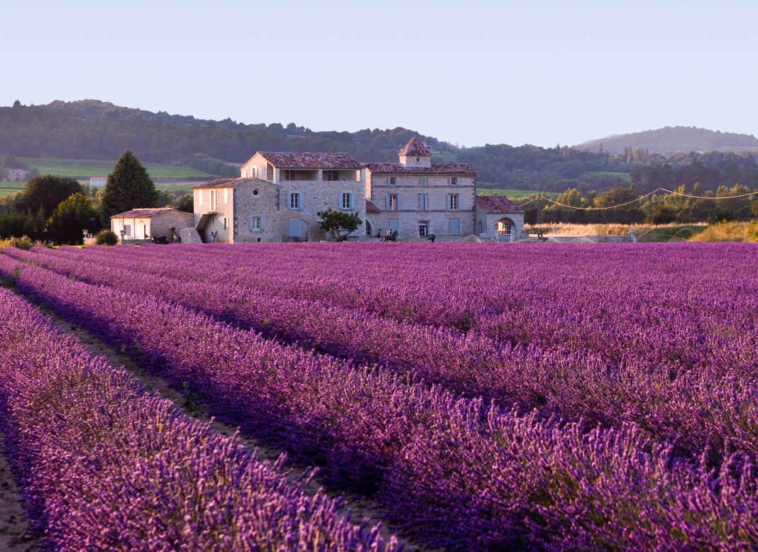 Lavender_field_of_Provance